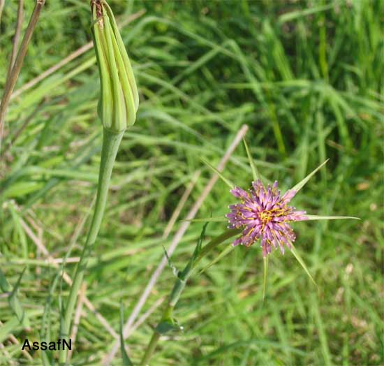 Tragopogon flower